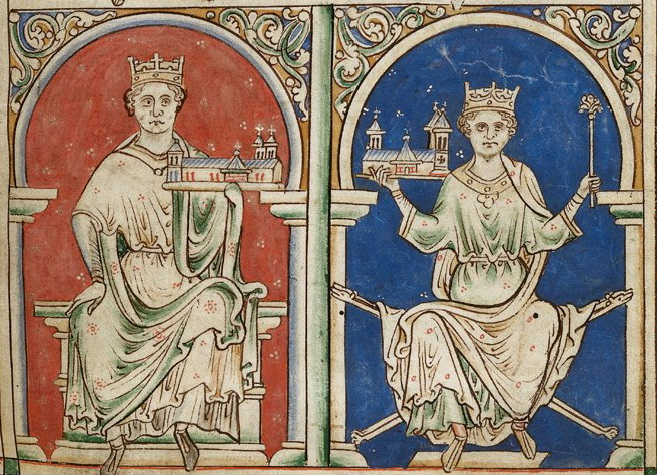 Portraits of English kings: John Lackland and Henry III. (British Library, MS Royal 14 C VII f.9)